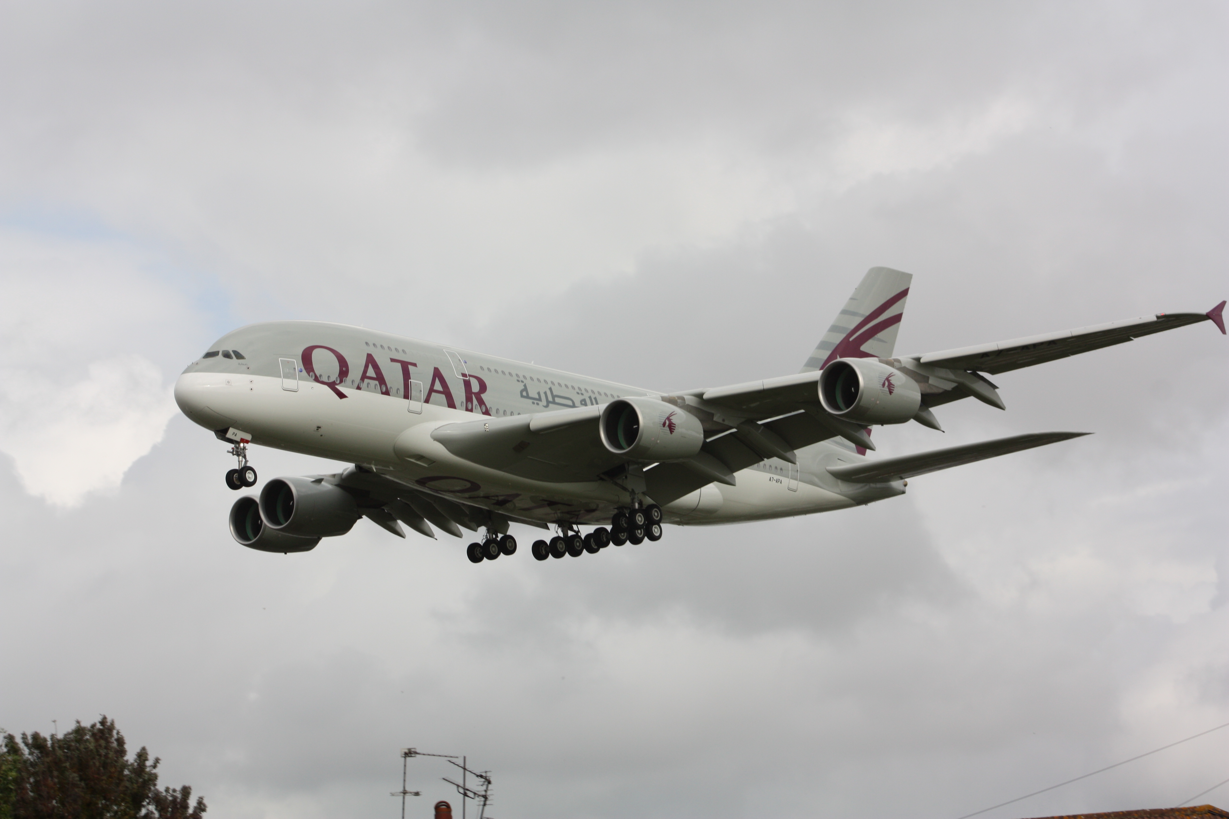 Qatar Airways Airbus A380 A7-APA at Heathrow 17/10/14